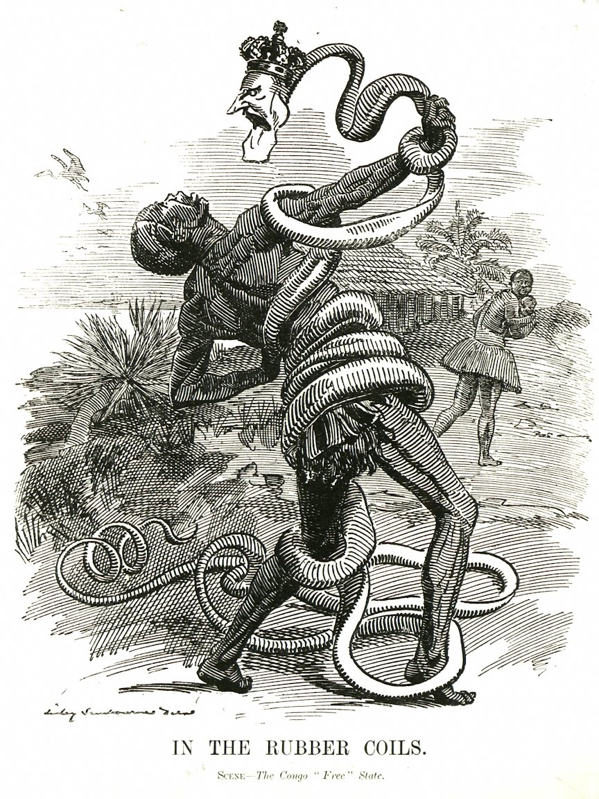 "In The Rubber Coils. Scene - The Congo 'Free' State" Linley Sambourne depicts King Leopold II of Belgium as a snake entangling a congolese rubber collector.